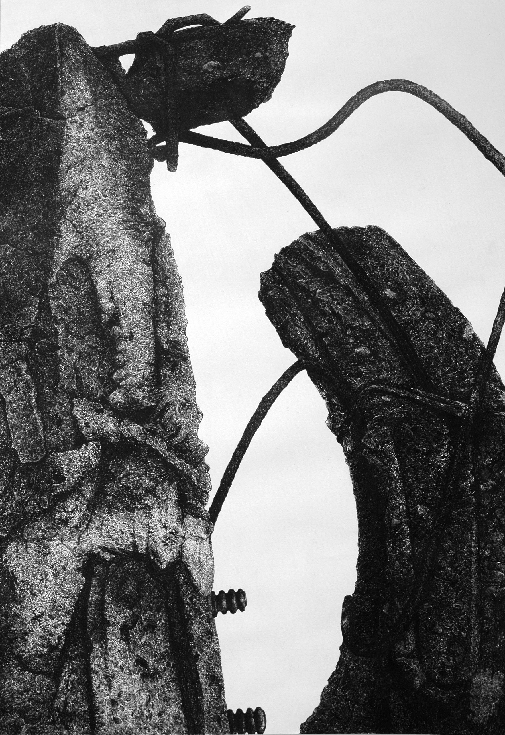 Paweł Warchoł - Hiob’s Moaning (3).